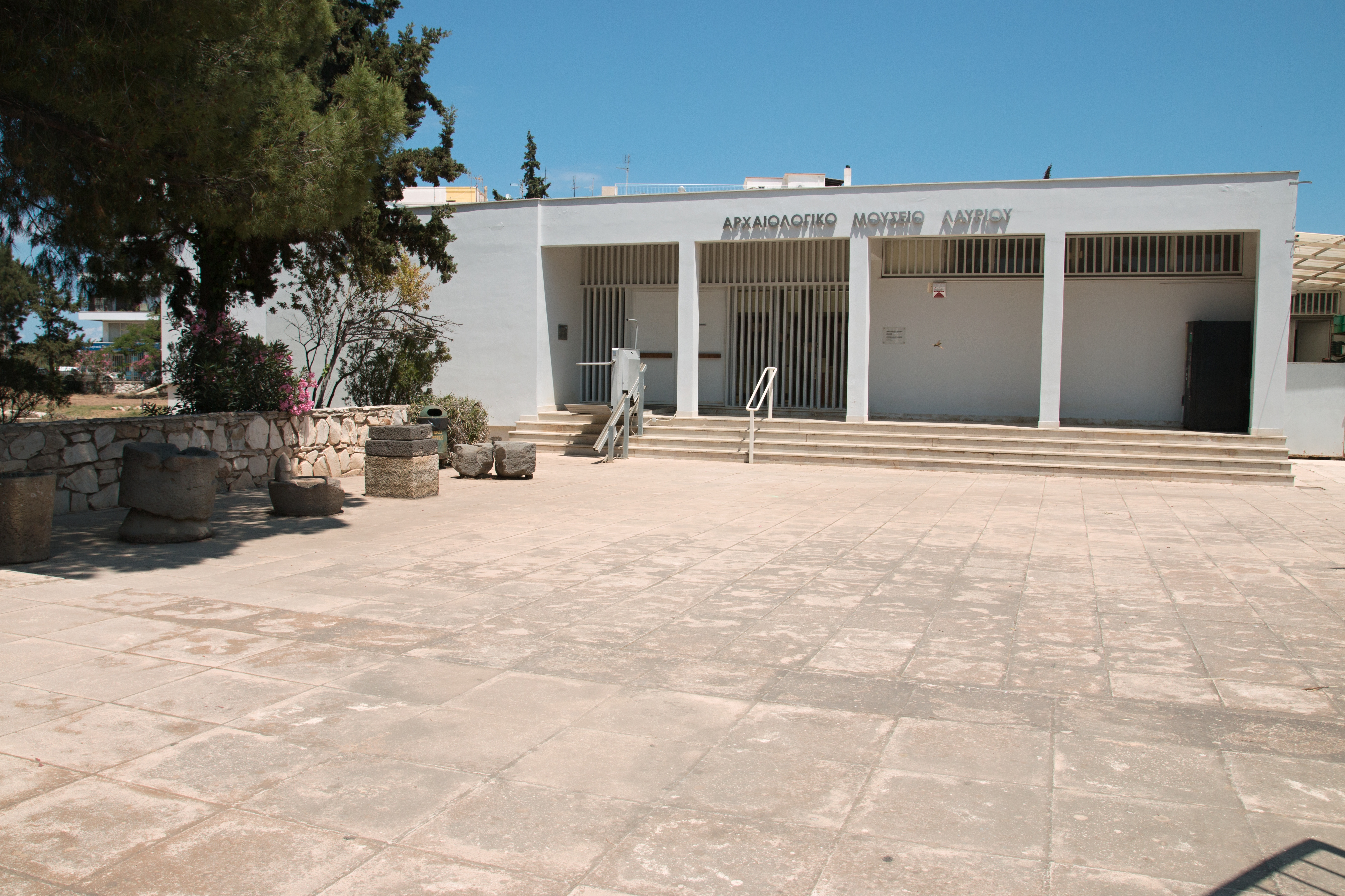 Archaeological museum of Lavrion. The building and lapidarium